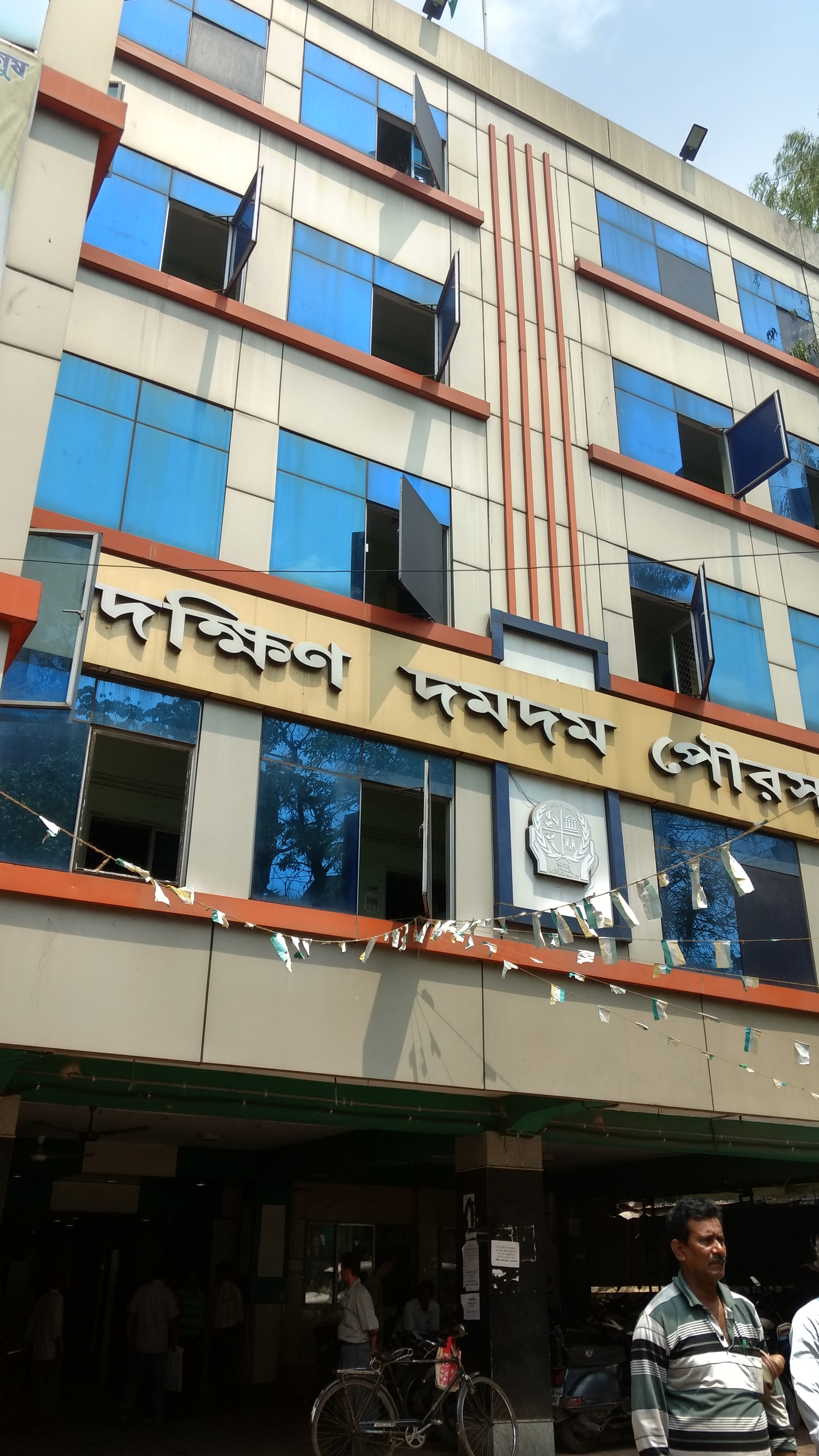 municipality office